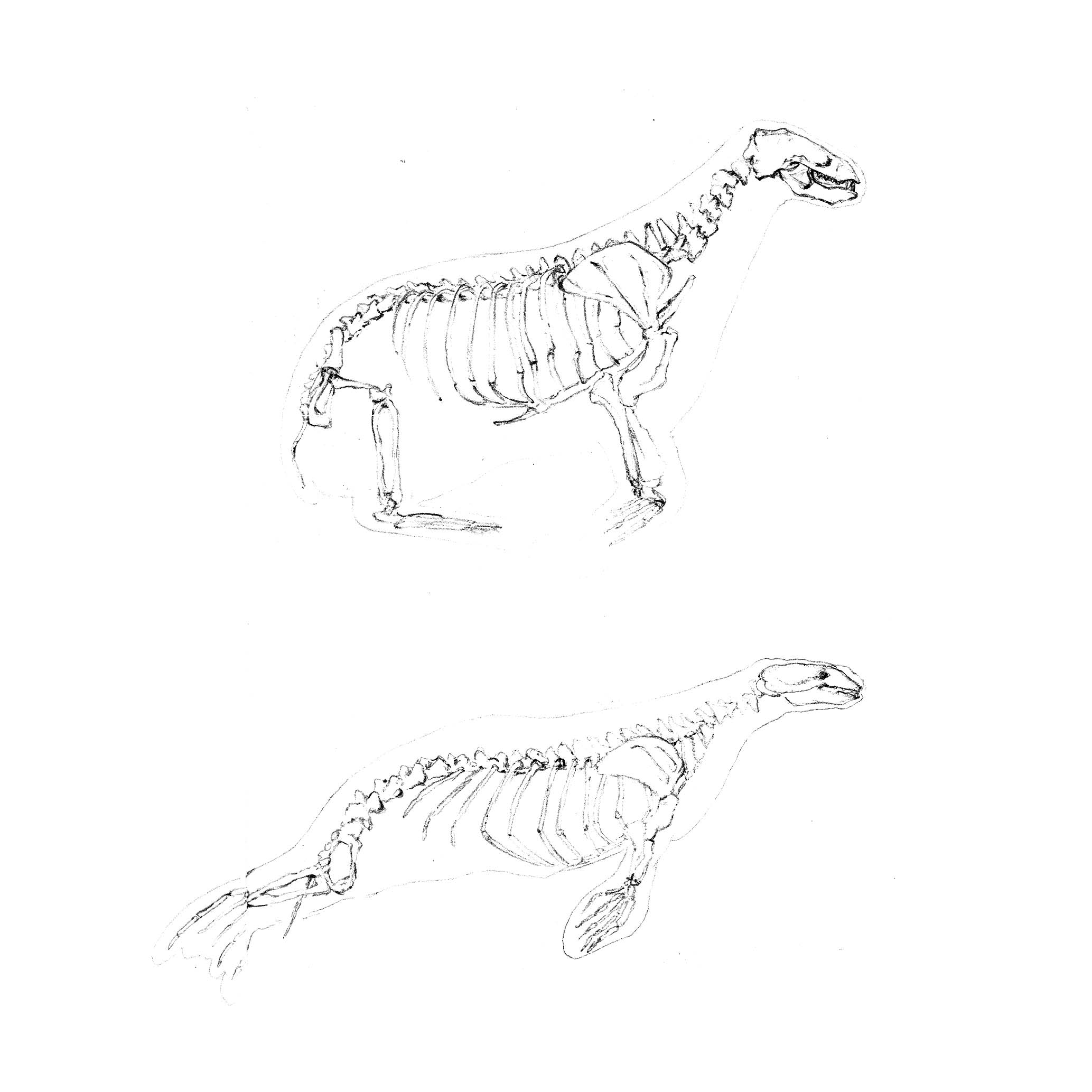 Comparative anatomy of an otariid seal and a phocid seal